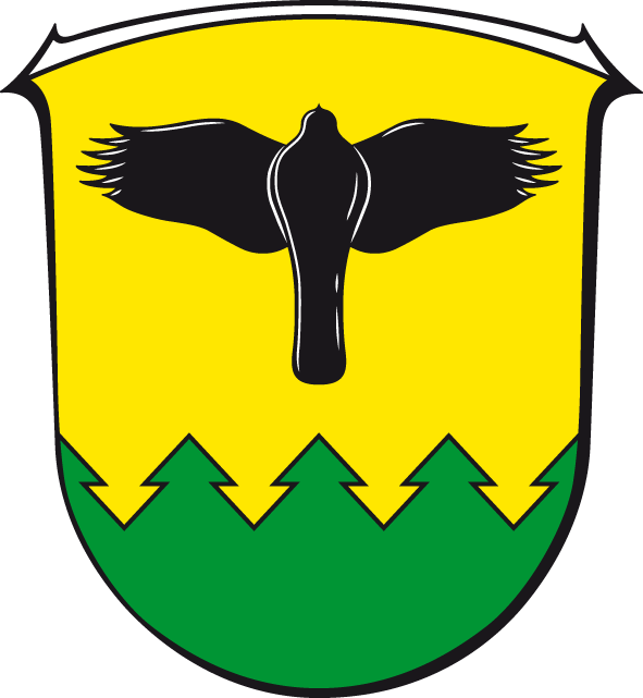 Coat of Arms of Habichtswald